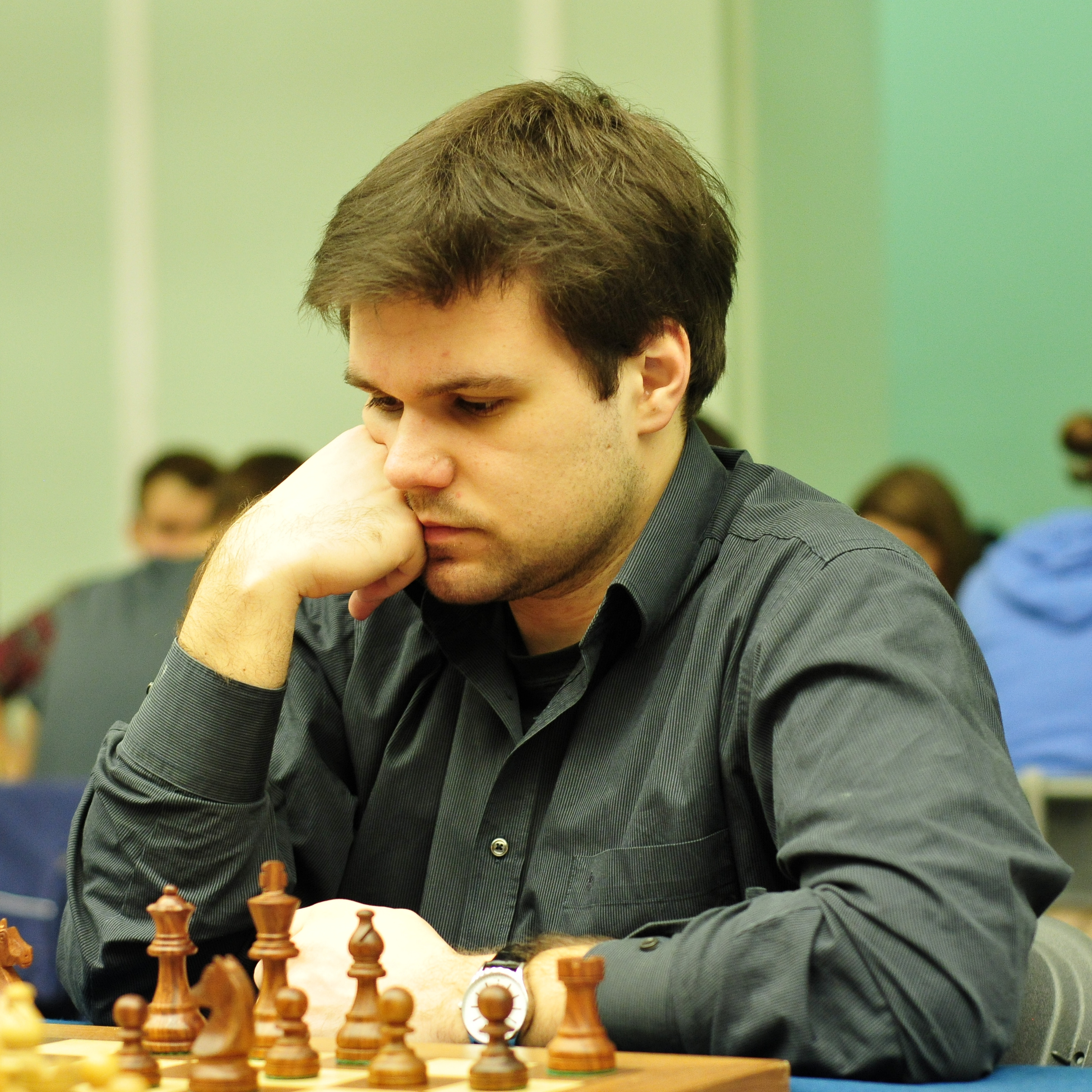 IM Michał Matuszewski, European Rapid Chess Championship, Warsaw 2013.